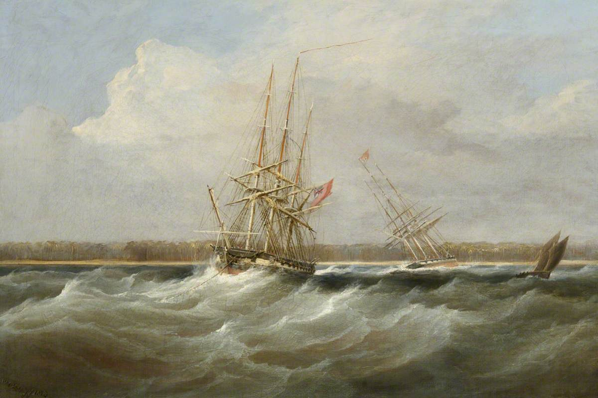 The Sylph, a fast clipper, was built in India in 1831 ran aground on a reef off the Malay peninsula, while sailing to China with a cargo of opium. The ship was saved by the Company's sloop Clive. Clive is on the right of the picture. The painting shows the Malay coast in the distance. Medium oil on canvas Measurements H 30.5 x W 45.5 cm Accession number BHC3649